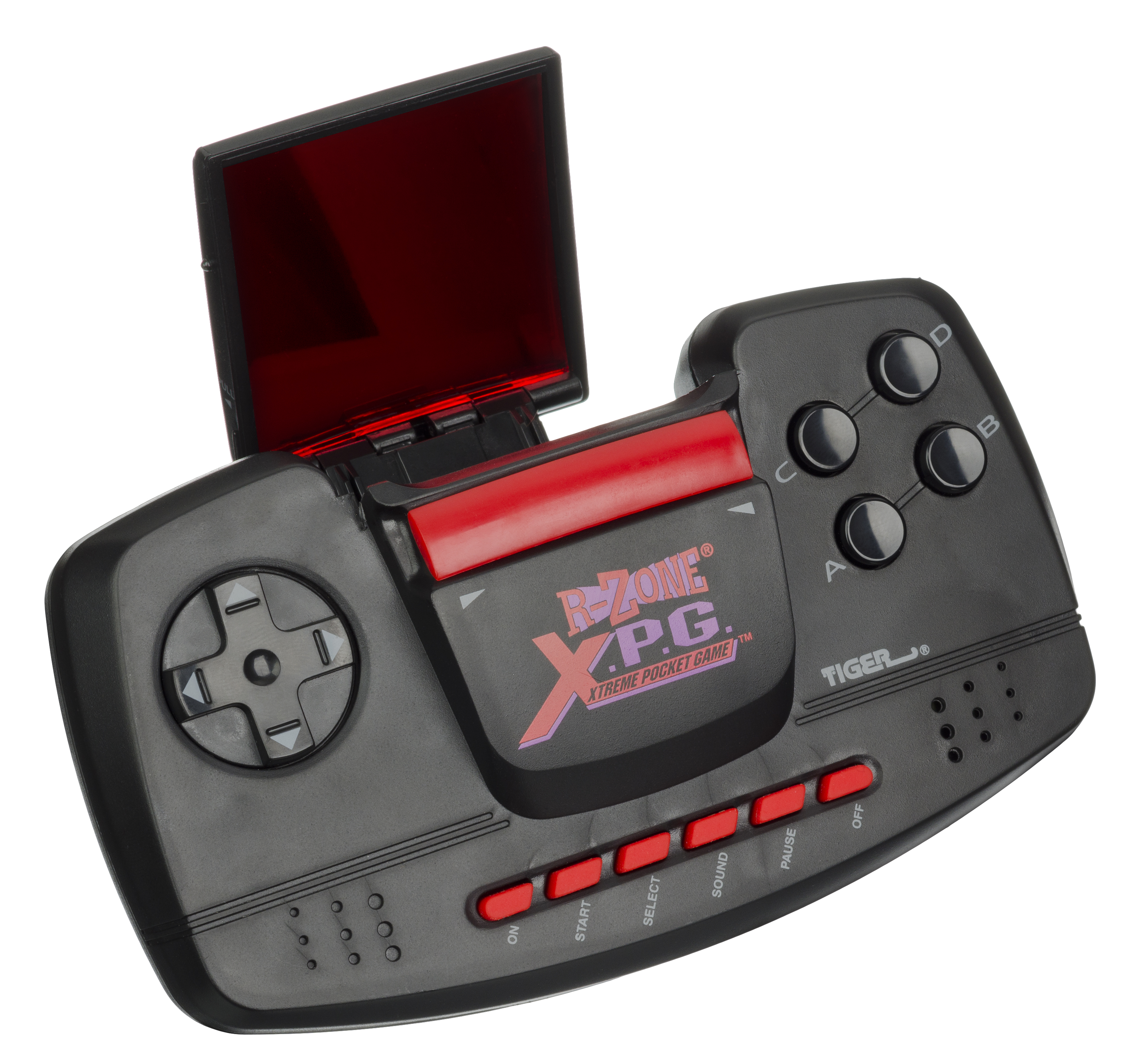 The Tiger R-Zone XPG, a portable game console released in 1995. The system was not much different than Tiger's line of dedicated handheld LCD games, and uses swappable LCD screen cartridges. The XPG is the closest model to a standard handheld game console.